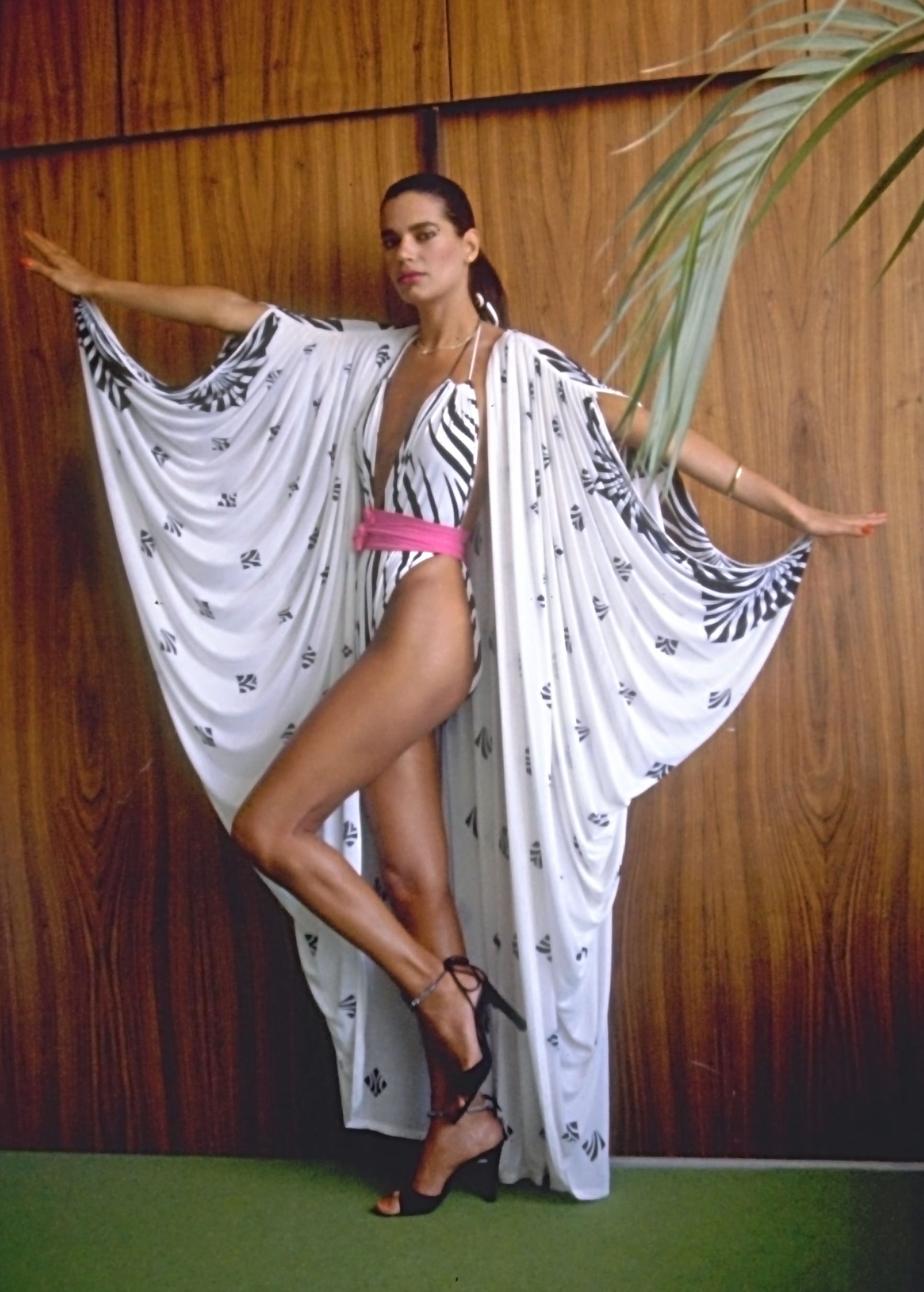 Model Tami Ben Ami in a Gottex bathing suit הדוגמנית, תמי בן עמי, בבגד ים של גוטקס Photo: Yaakov Saar (1951–) Alternative names SA'AR YA'ACOV; Jacob Saar; Saʻar, YaʻaḳovDescriptionIsraeli photographerDate of birth 1951 Authority control : Q28751896 VIAF: 298161188 NLI: 001394176 creator QS:P170,Q28751896 , 06/16/1980